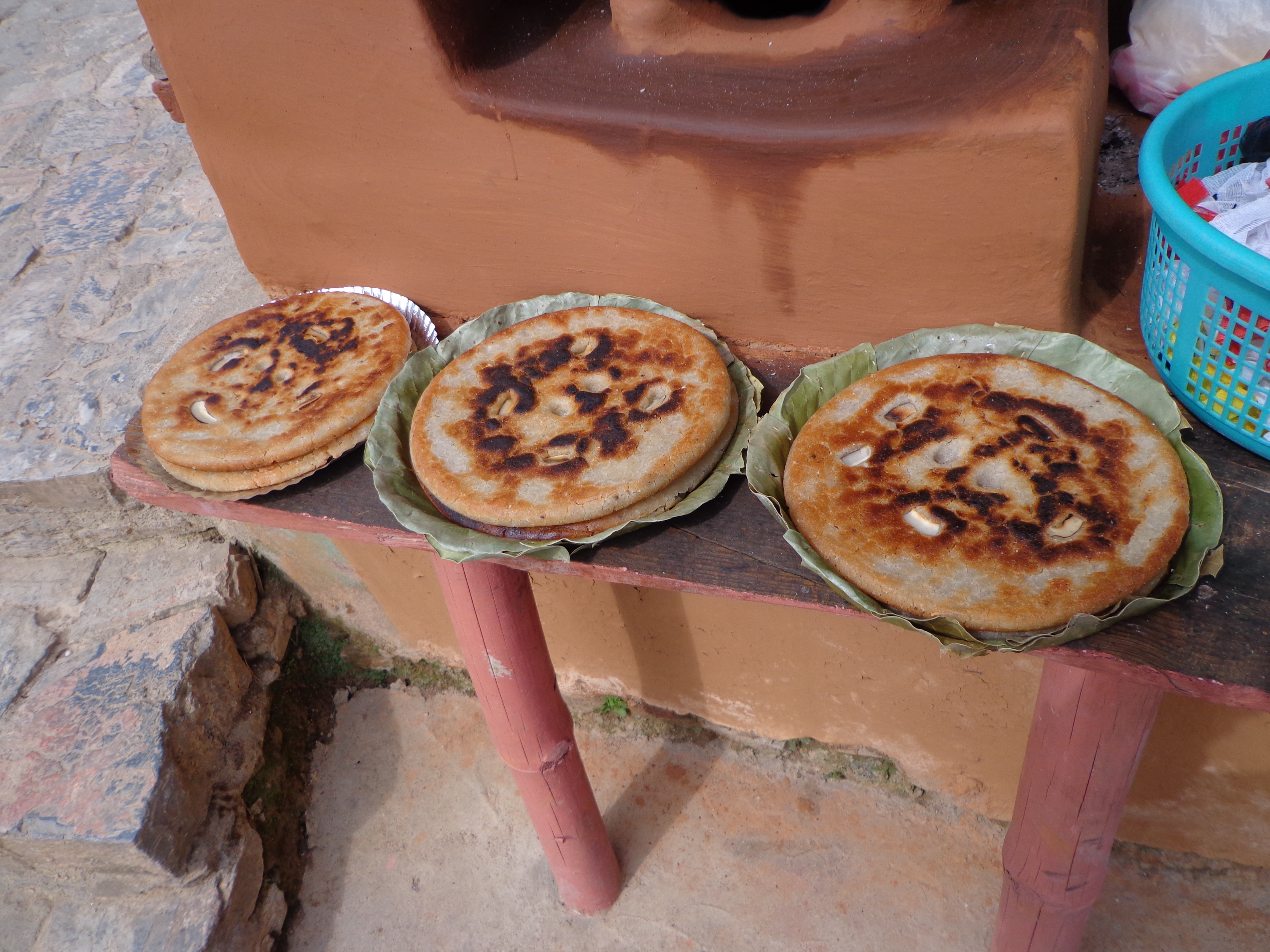 Rote for Bhairav